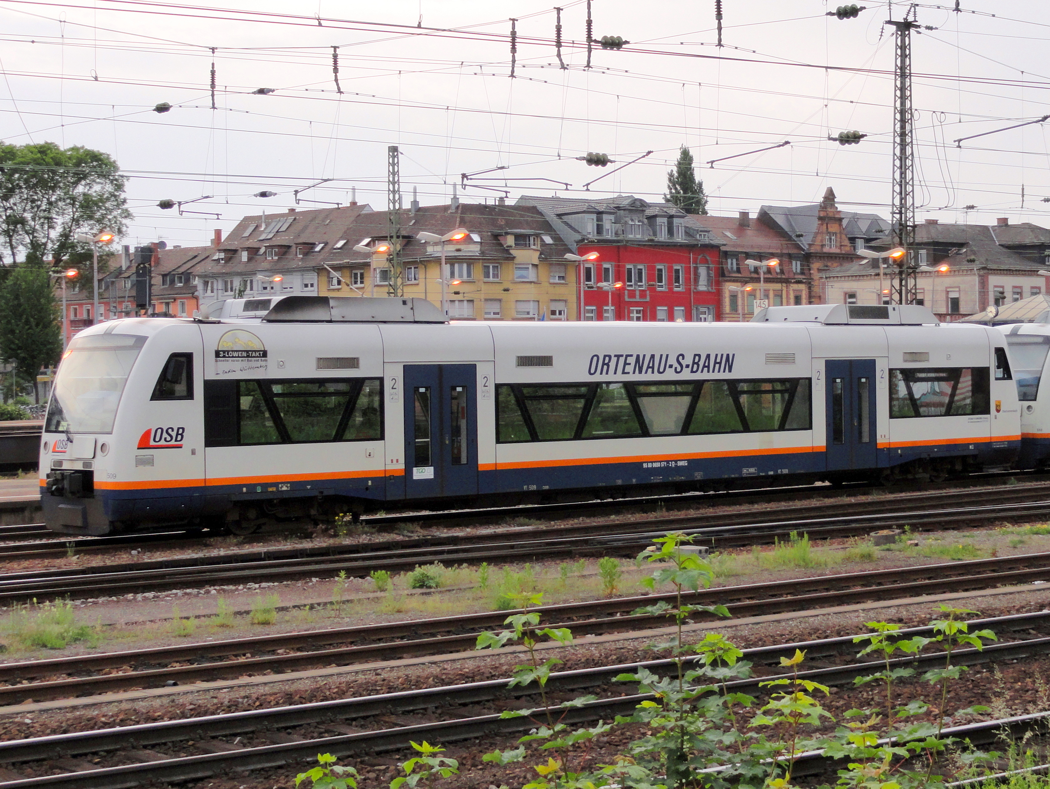 Photograph of OSB 509 at Strasbourg.